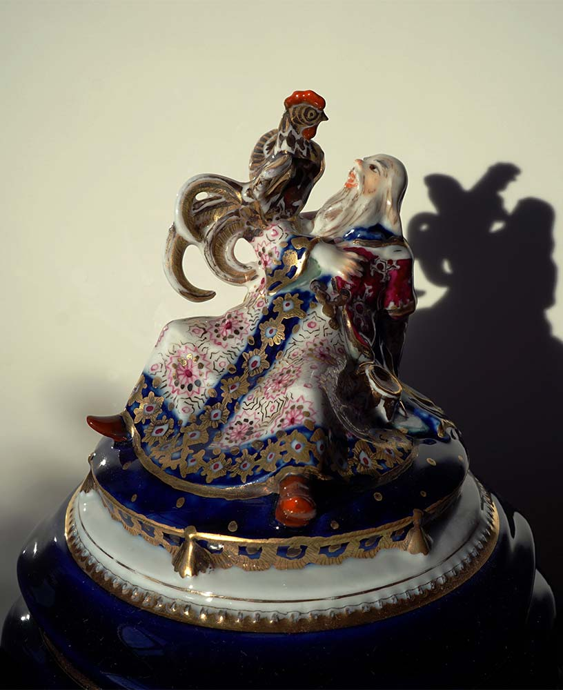 Porcelain box on the fairy tale of Russian poet Alexander Pushkin «The Golden Cockerel» (fragment). Porcelain Factory «Red farforist» (Chudovo, Novgorod region. USSR). Porcelain of the soviet sculptor Bronislav Bystrushkin (1926-1977). Lomonosov's Porcelain Factory, Leningrad, USSR.